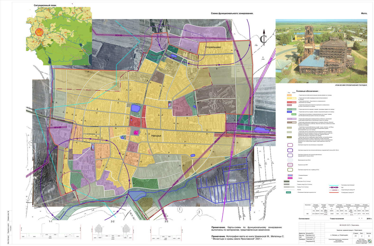 General plan of Nagorye rural settlement (Yaroslavl Oblast) 2008. Nagorye.